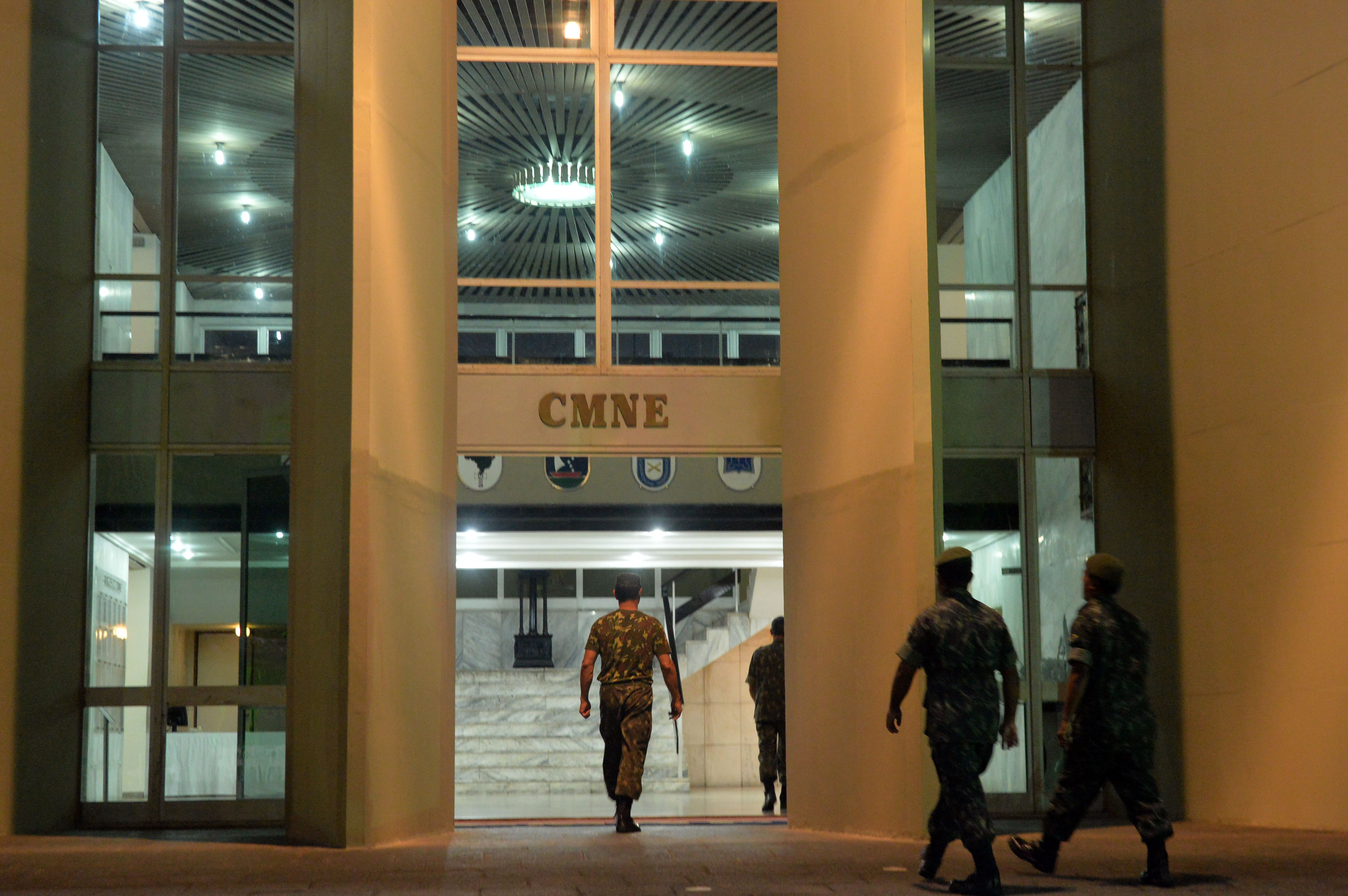 Northeastern Military Command - Recife, Pernambuco, Brazil